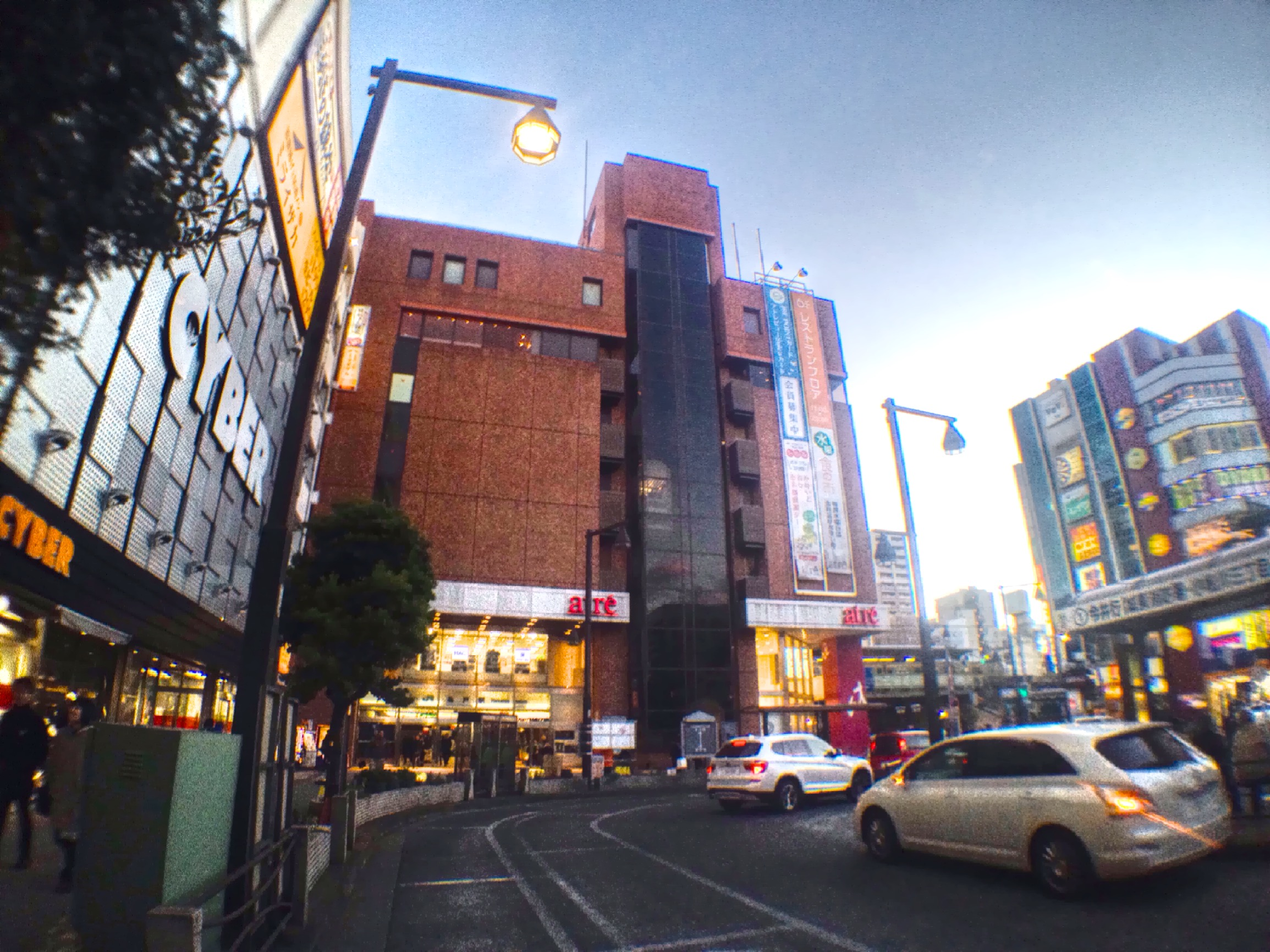 亀戸駅の北口 (Kameido Station north exit)